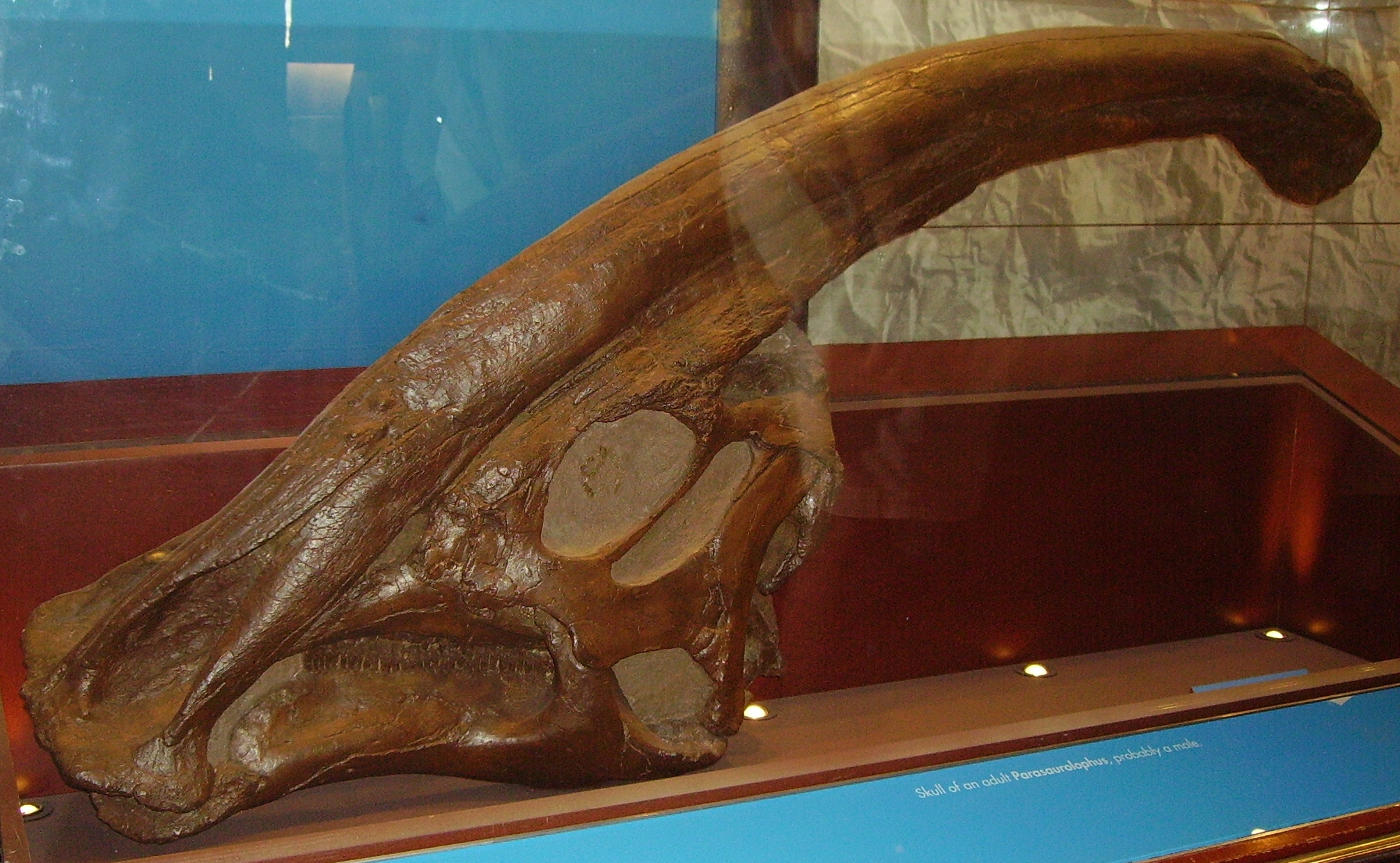 Parasaurolophus walkeri skull - Natural History Museum, London.